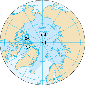 Map of the North Pole. The Geografic North Pole (1), The magnetic North Pole (2), The geo magnetic North pole (3) the place longest away from land (84°03' north, 174° 51' west) (4).